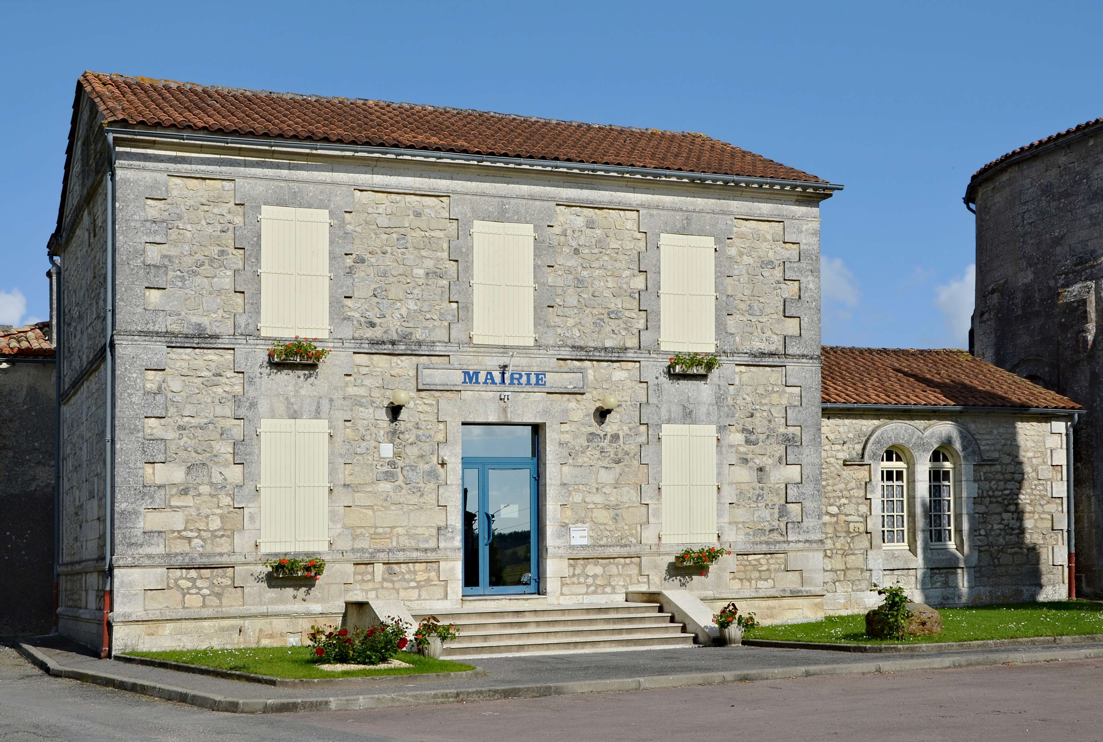 Village town hall of Fouquebrune Charente, France.